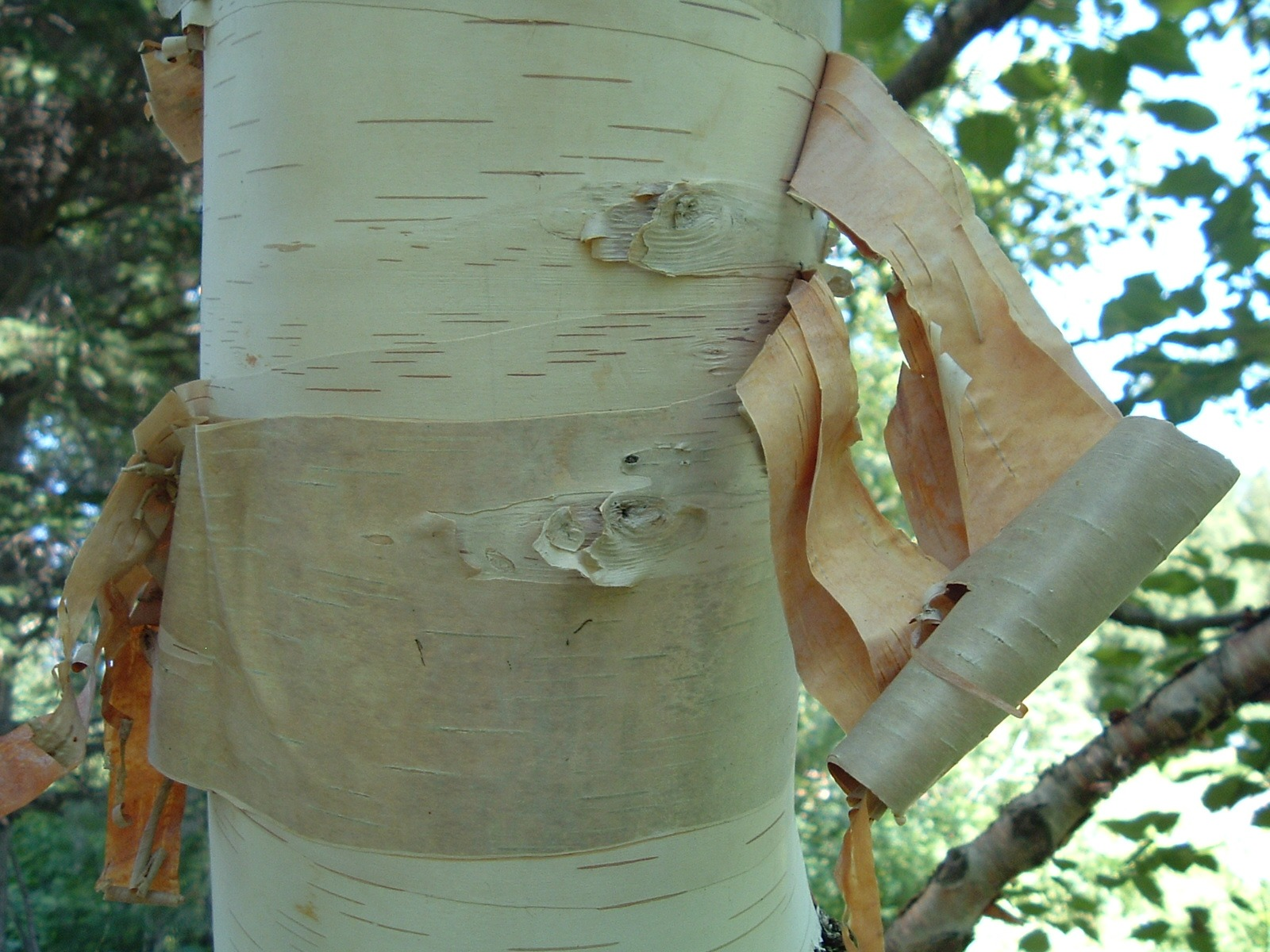 Paper Birch bark, Bas St-Laurent, Québec